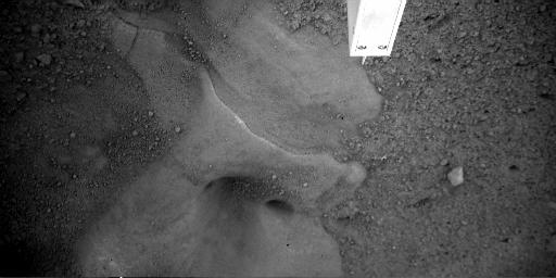 This image captured by the Robotic Arm Camera aboard NASA's Phoenix Mars Lander on Sol 6, the sixth Martian day of the mission, (May 31, 2008) shows a close-up of the "Snow Queen" feature under the lander. Swept clear of surface dust by the thruster rockets as Phoenix landed, the area has a smooth surface with layers visible and several smooth, rounded cavities.